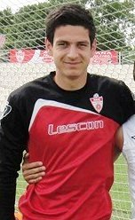 Emil Balayev in 2013 with Araz Nakhcivan